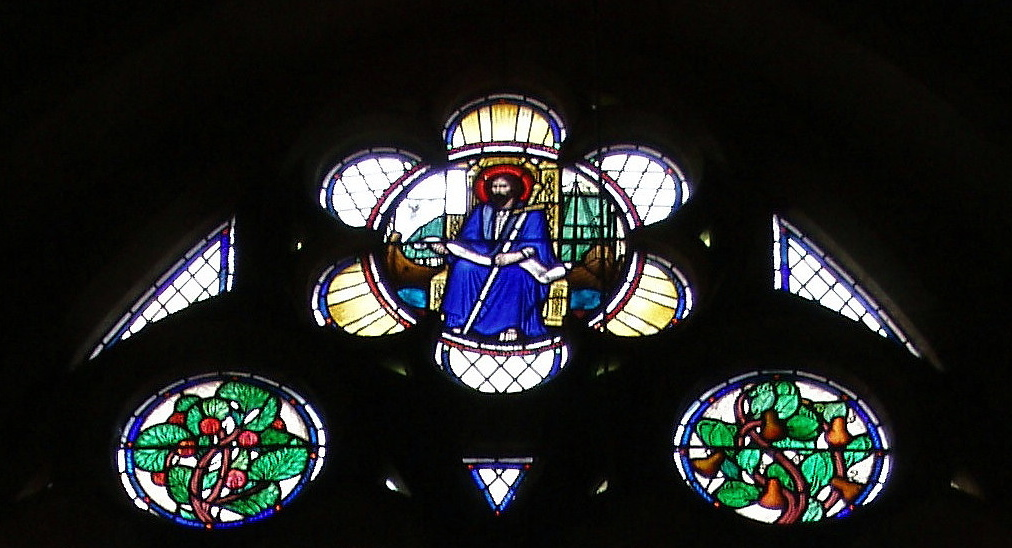 "St Paul" St Paul's Cookhill, Worcestershire, England Window by Sidney Harold Meteyard (1868–1947). Memorial Window to William Forster and his wife Sarah Ann, their daughter Kathleen Mary and his sister Mary Ann Wiggan, erected in 1933. Born in Stourbridge, Meteyard studied at the Birmingham School of Art and subsequently lectured there. His best-known painting - "I am half sick of shadows", said the Lady of Shalott (1913), based on the poem by Tennyson - is in the collection of Birmingham Museum and Art Gallery. His wife Kate was the model for the Lady. Meteyard died on 4 April 1947 at Malt House Cookhill, Worcestershire, and his funeral service was held at St Paul's Church, Cookhill. The Forster Memorial window, by Meteyard, probably working together with his wife, Kate Eadie , was installed in St Paul's Cookhill in 1933. It was commissioned by William Forster of The Paddocks Cookhill, a neighbour and most probably acquaintance of the artist.